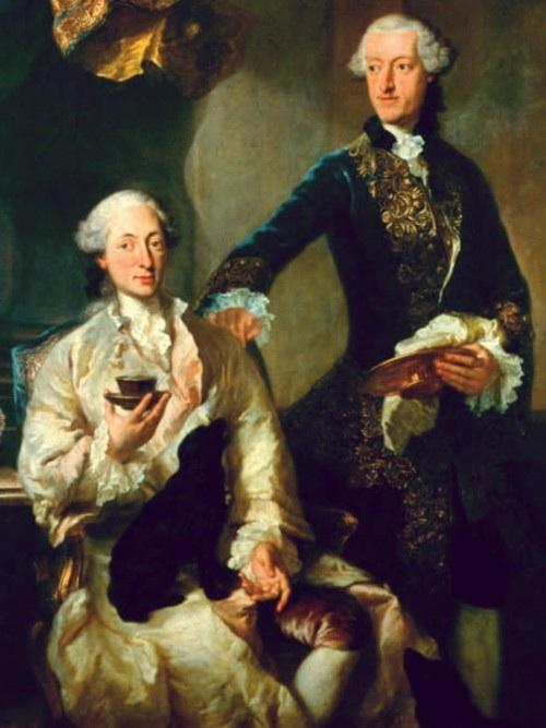 Portrait of Maximilian III Joseph, Elector of Bavaria (1727-1777) and Joseph Anton von Seeau (1713- 1799)